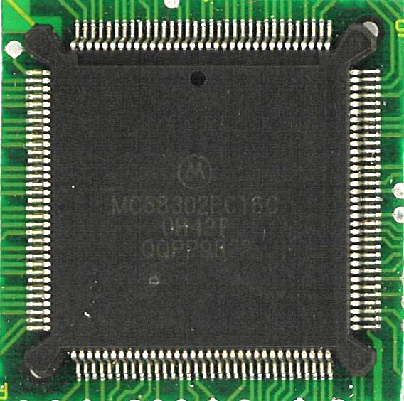 IC photo